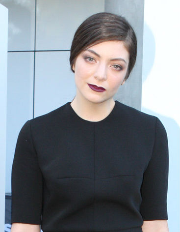 New Zealand singer-songwriter Lorde at the ARIA Music Awards of 2013.